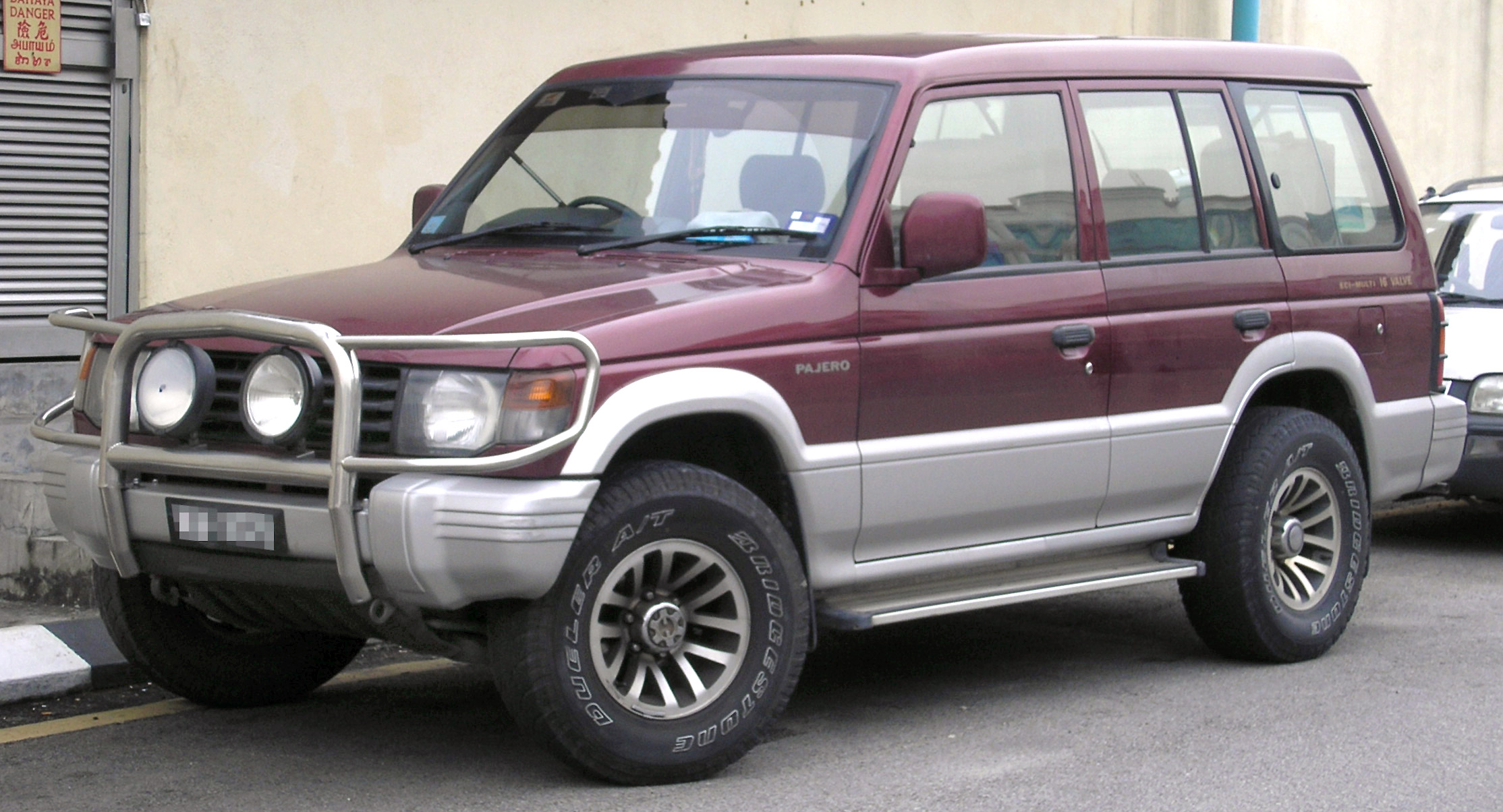 Front quarter view of a second generation Mitsubishi Pajero, in Serdang, Selangor, Malaysia.